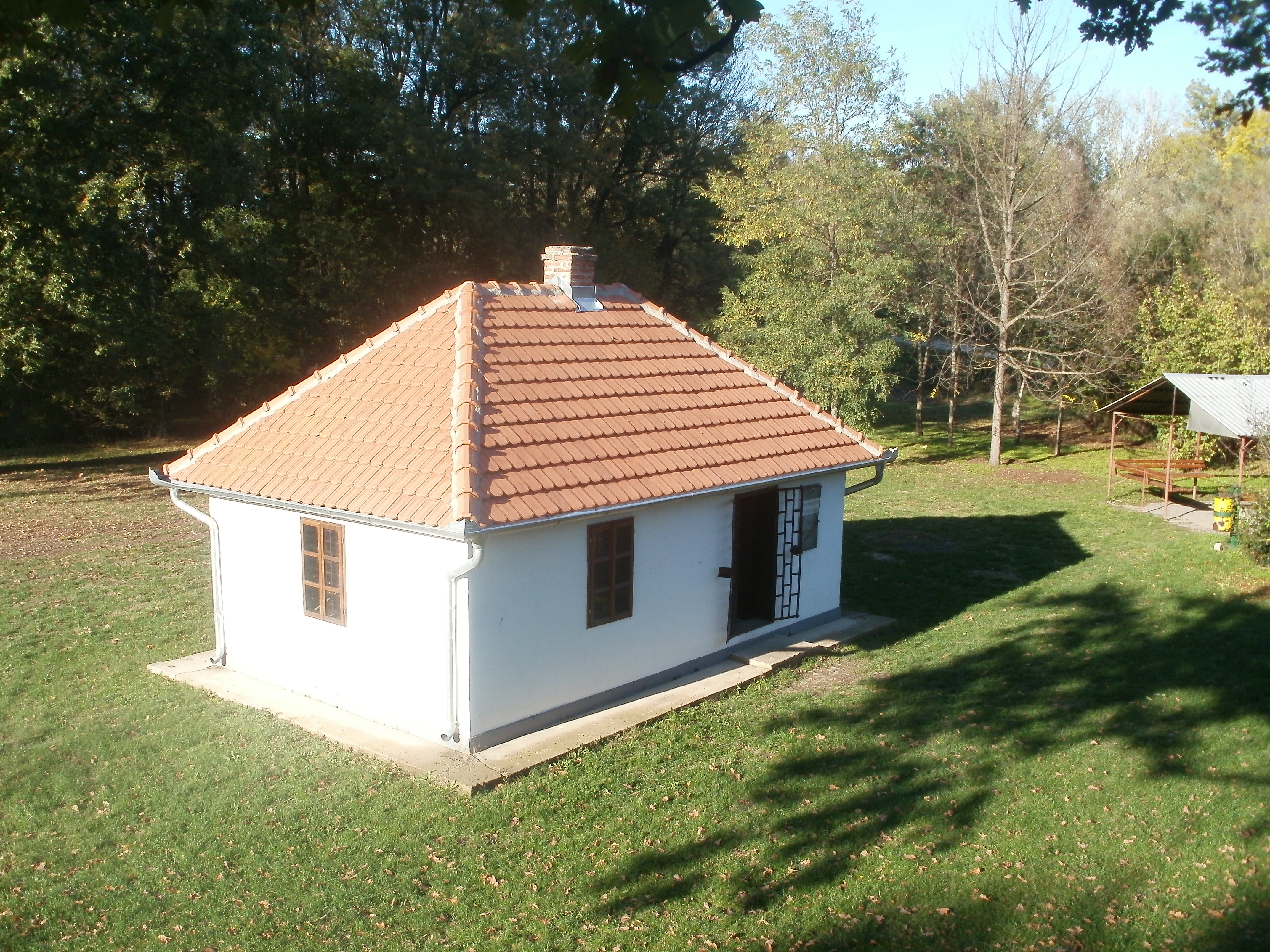 Јозића колиба је мала али је сачувана и лепо изгледа